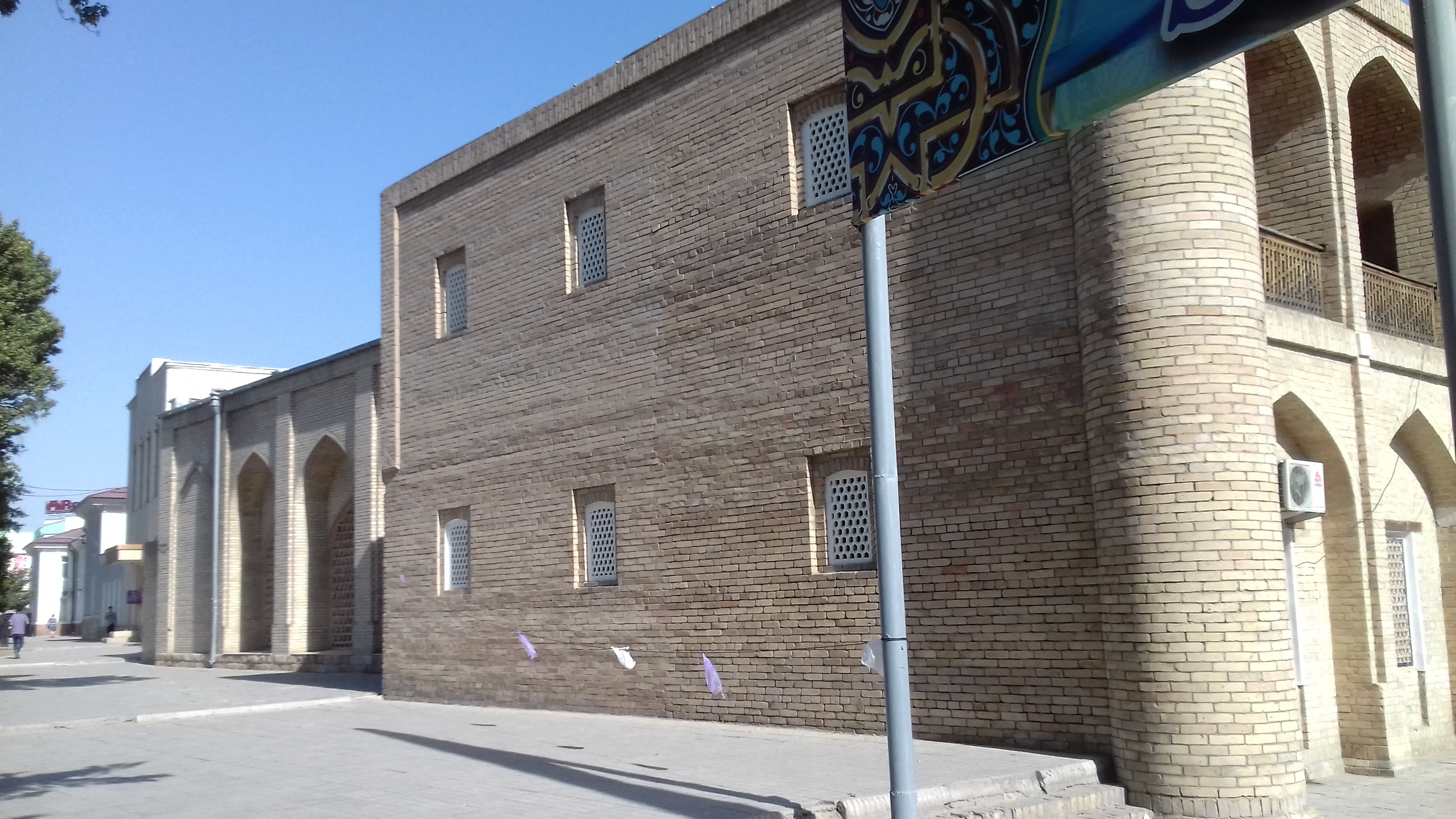 Dusmatbay Madrasa in Samarkand